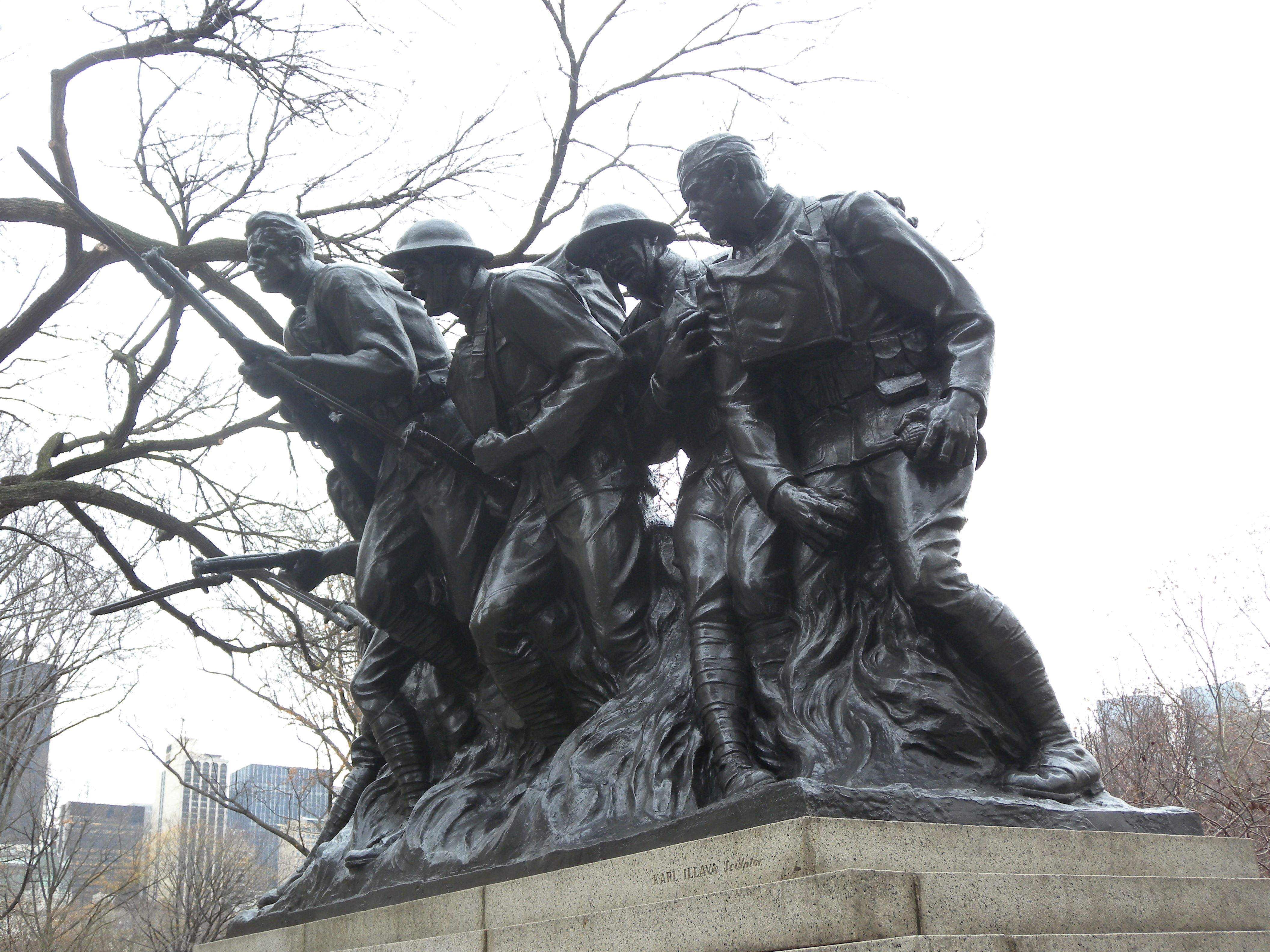 Looking west from 5th Ave at WWI memorial for the en:7th New York Militia Regiment (US 107th) at 67th St on a cloudy day.